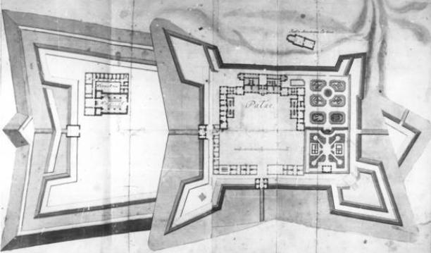 Plan of the Castle of Michał Serwacy Wiśniowiecki in Vyshnivets.